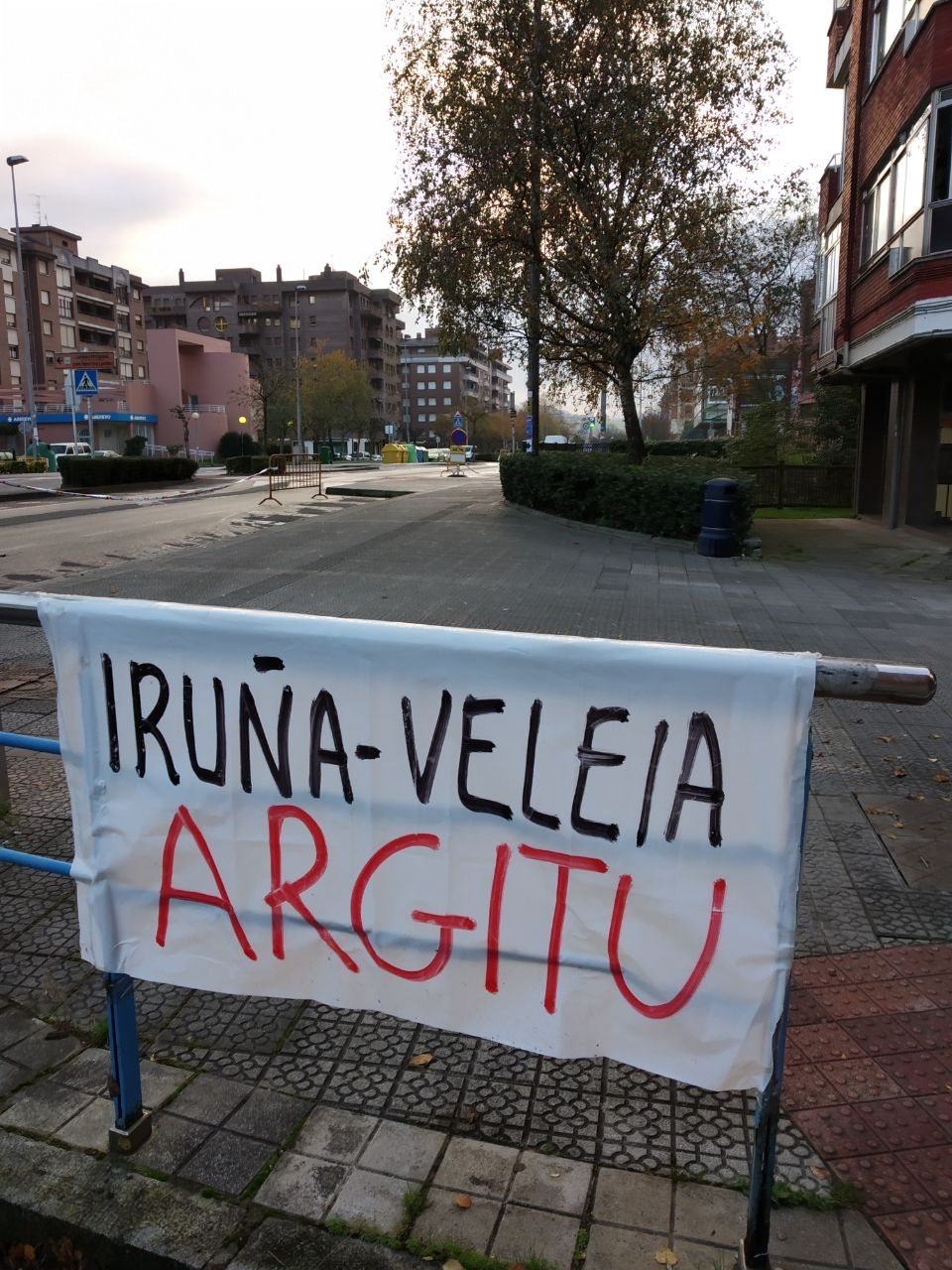 Iruña Veleia argitu pankarta